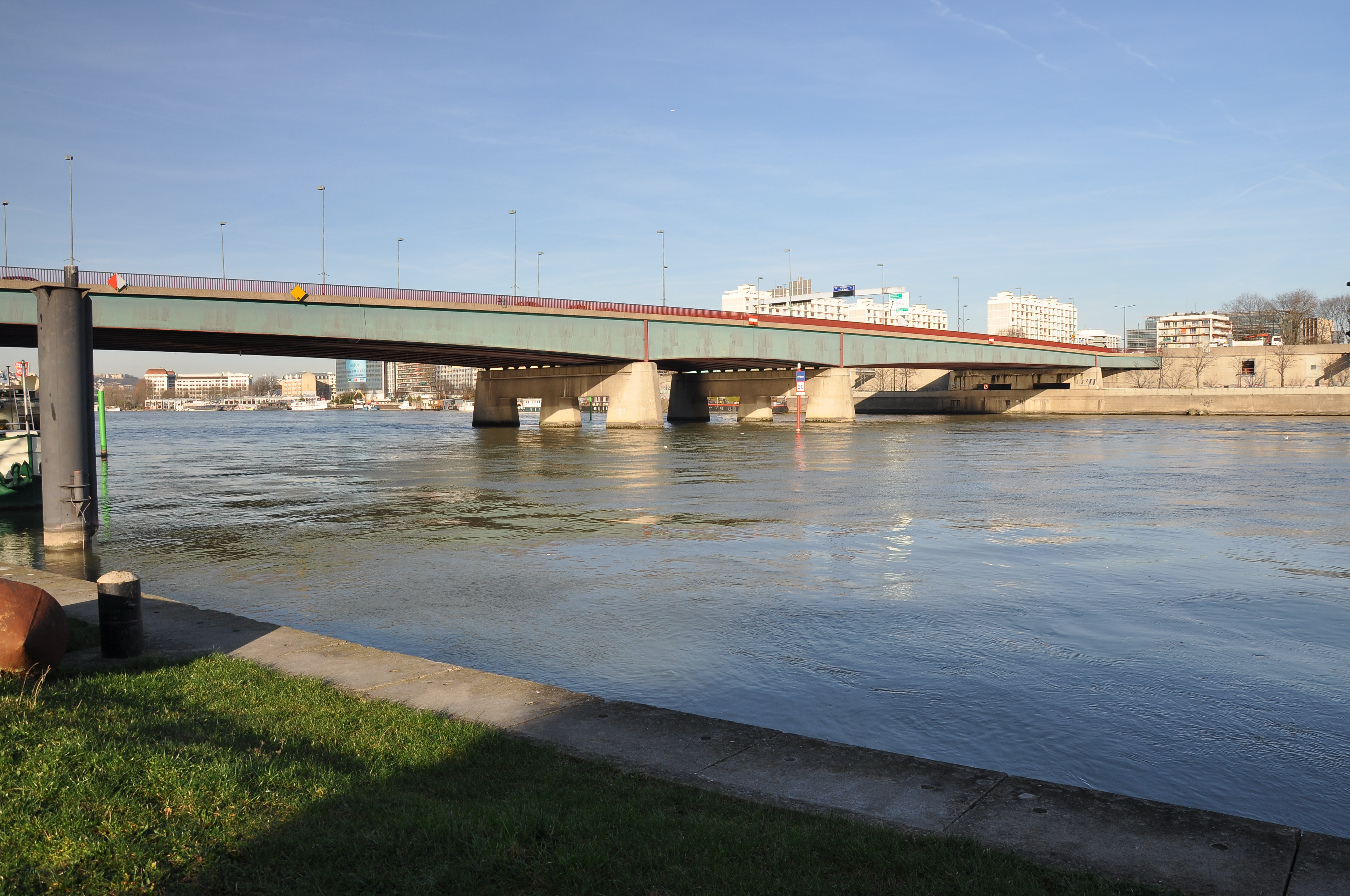 Bridge of Sèvres over the Seine River between cities of Sèvres and Boulogne-Billancourt, Hauts-de-Seine department in France.